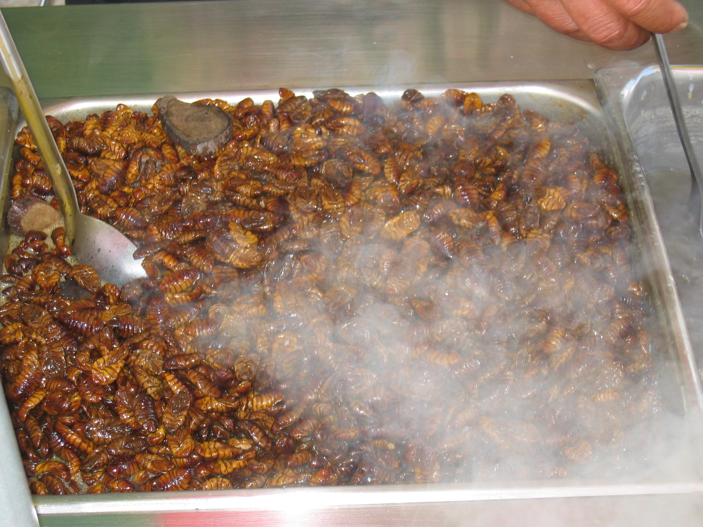 I took this photo of silkworms for sale in Korea.